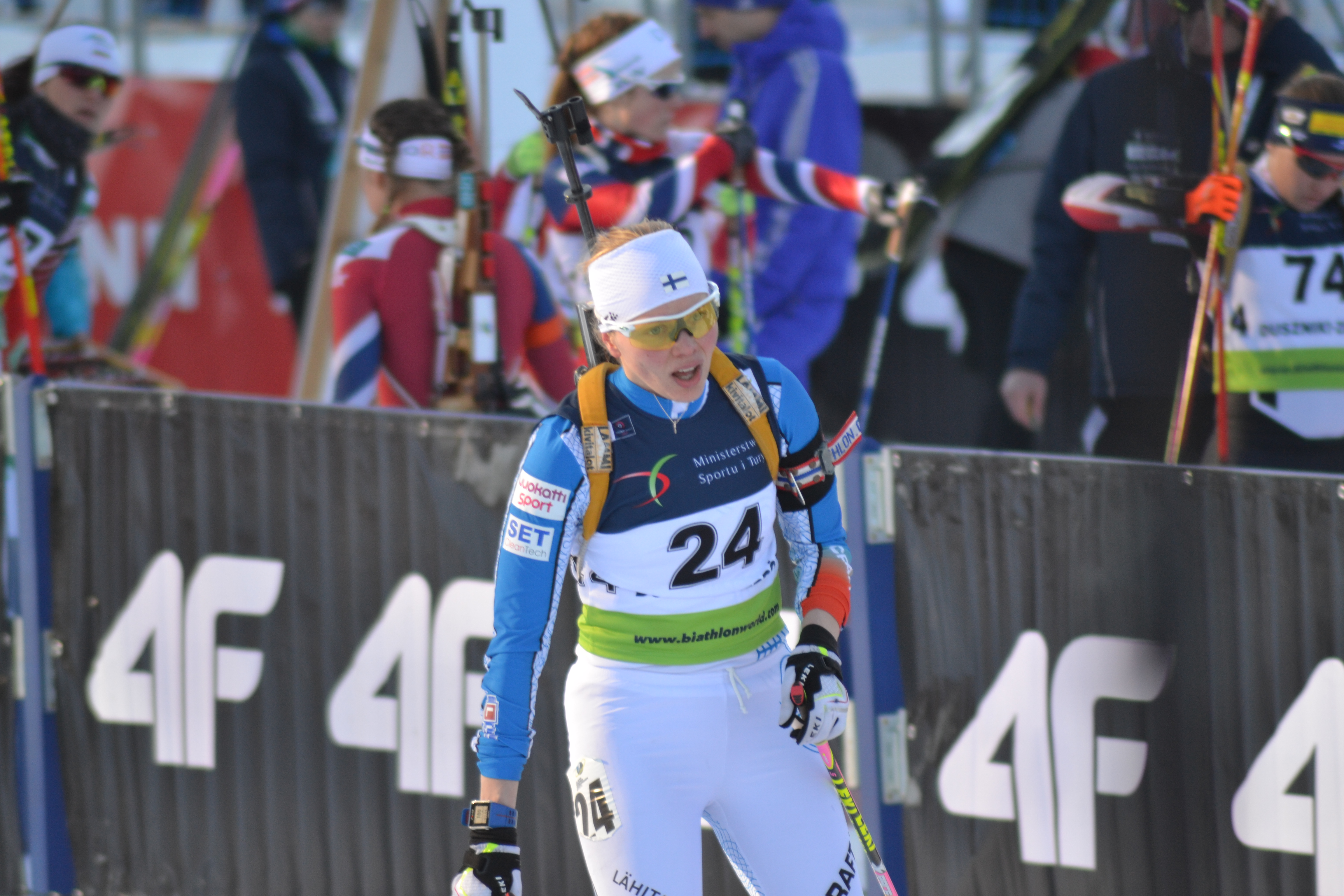 Open European Championships Biathlon 2017, Sprint Women's race, held on January 27th.